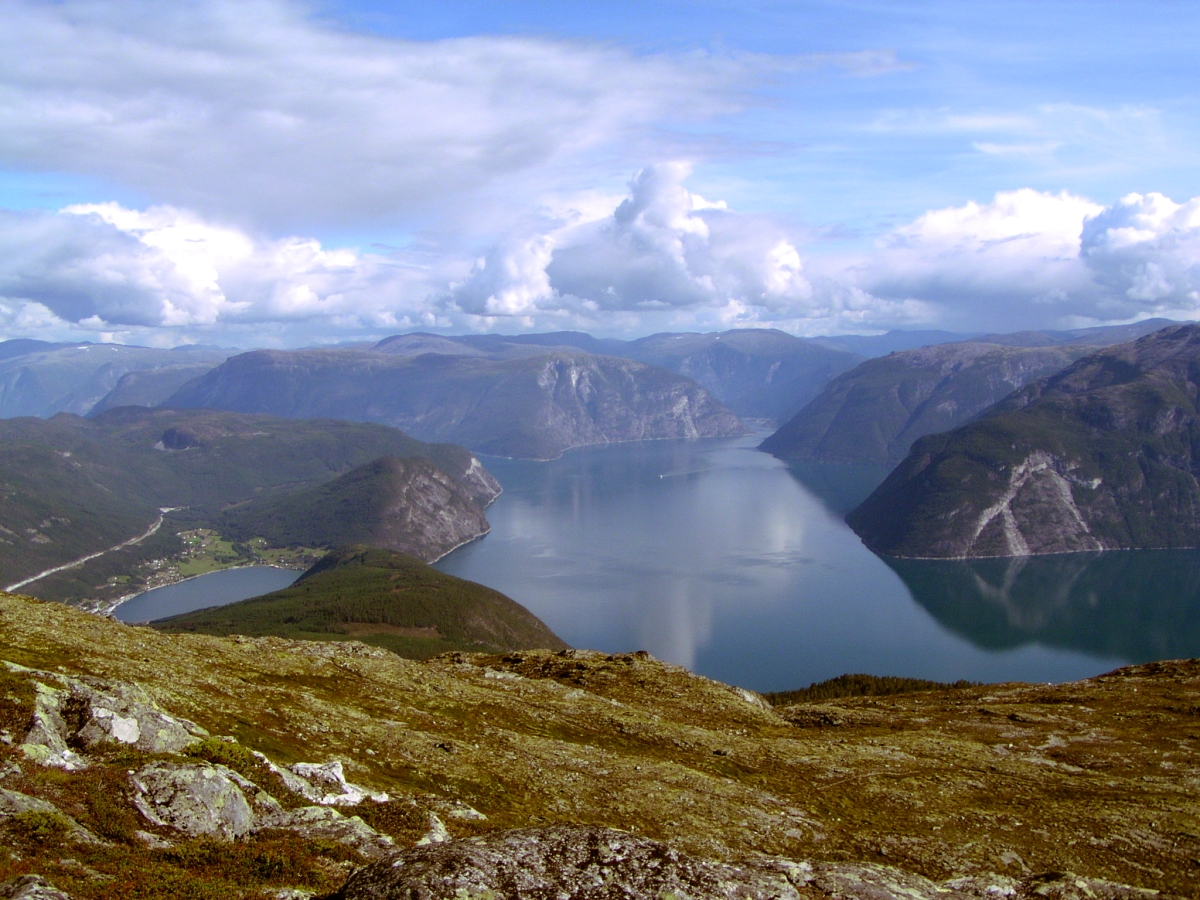 The Sognefjord in Norway as seen from the Storehaugen mountain. At the left, the village of Kaupanger.